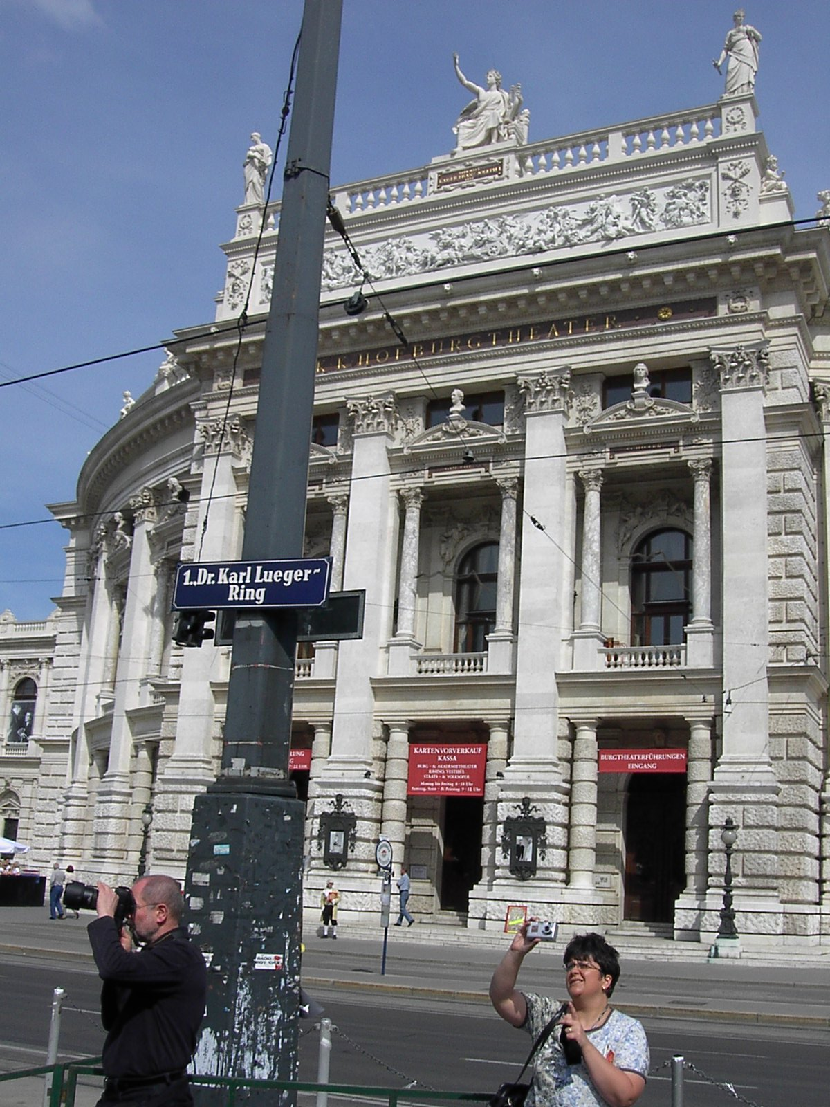 The Burgtheater, viewed from the side, on Karl Lueger ring road.